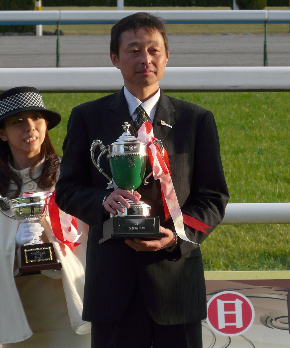 Hidekatsu-Shimizu20100115